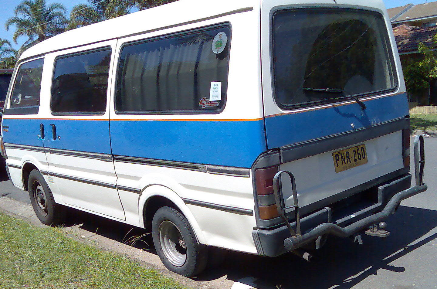 1984 Ford Econovan Maxi MWB van. Photographed in Gymea, New South Wales, Australia.